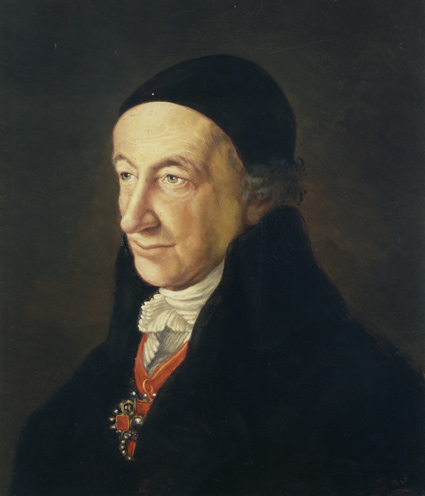 Christoph Martin Wieland